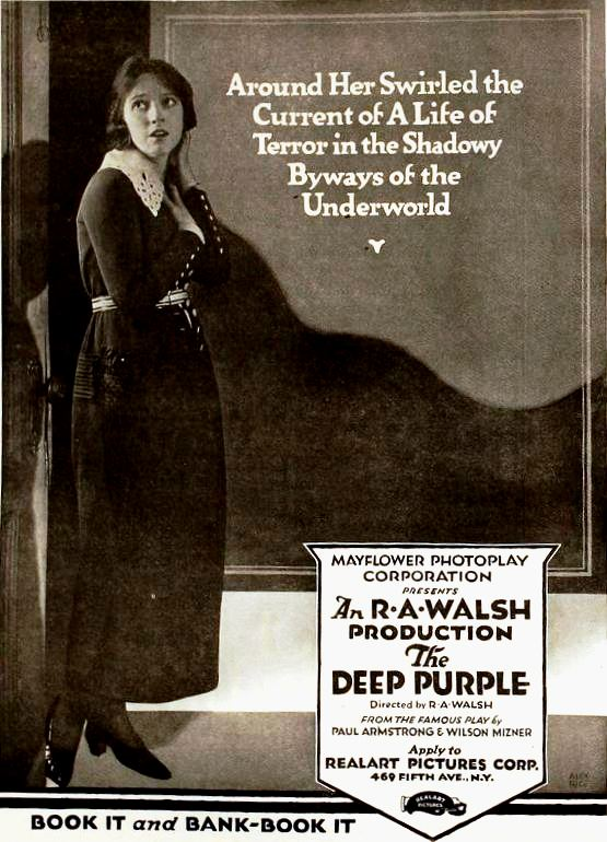 Ad for the American film The Deep Purple (1920) with Miriam Cooper, on page 3584 of the April 24, 1920 Motion Picture News.